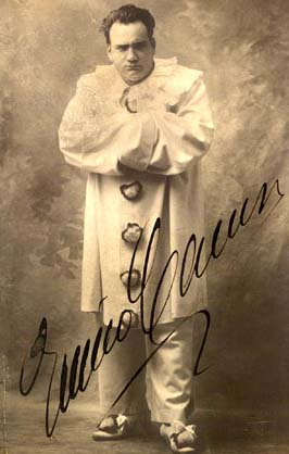 Description: Portrait of Enrico Caruso as Canio in Pagliacci from a postcard published circa 1904 Photographer: Bert Source Historic Opera